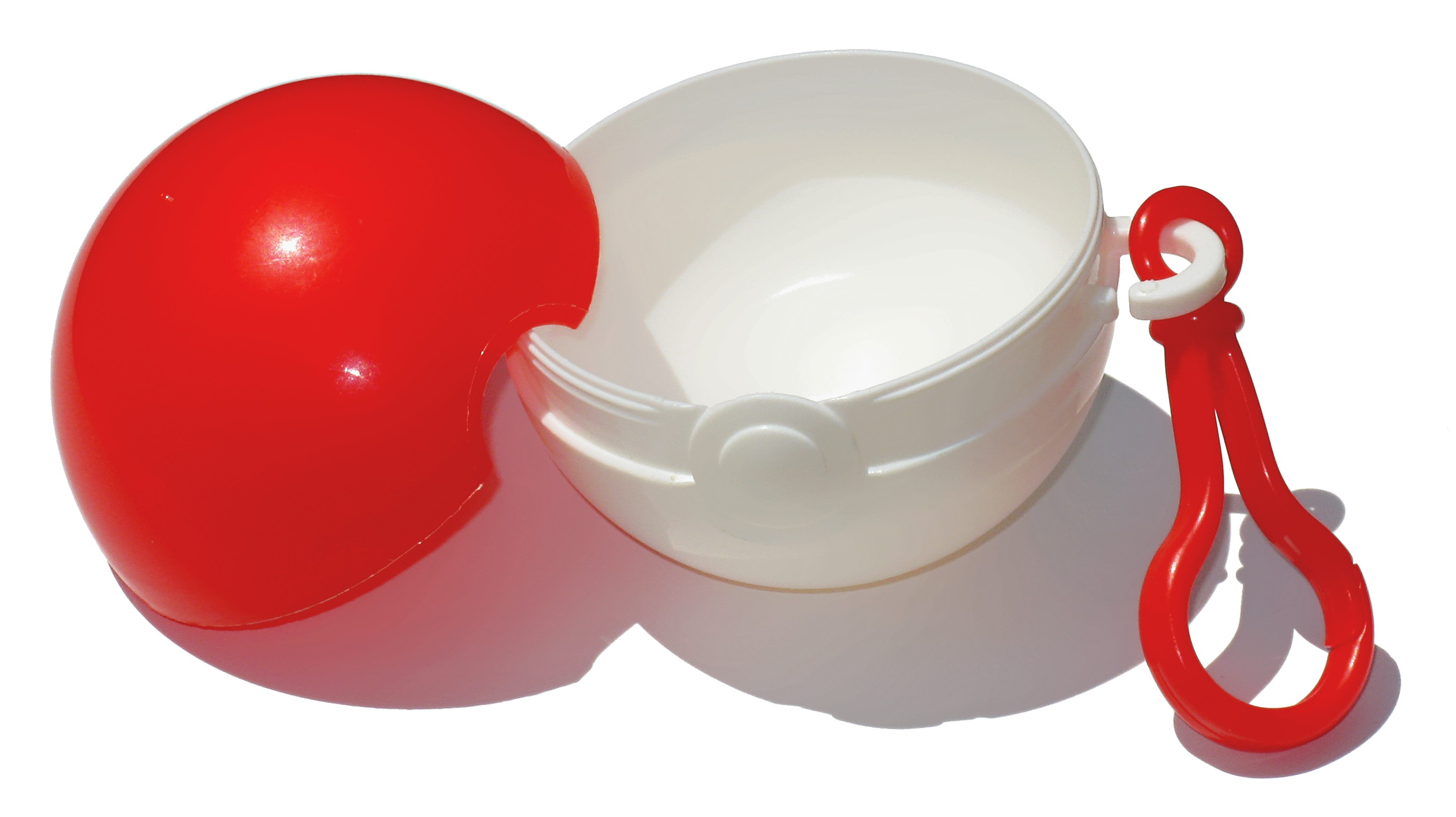 Photograph of a Poké Ball container, distributed with Burger King Kids' Meals from 1999–2000.